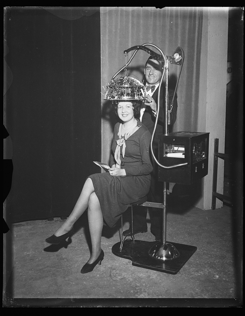 Photos displaying on either side of this one in the Prints & Photographs Online Catalog may yield clues—view the neighboring photos: Harris & Ewing,, photographer. [Woman seated with a psychograph, a phrenology machine, on her head] [1931] 1 negative : glass ; 4 x 5 in. or smaller Notes: Title information from Flickr Commons Project, 2015. Date based on date of negatives in same range. Gift; Harris & Ewing, Inc. 1955. Subjects: United States. Format: Glass negatives. Repository: Library of Congress, Prints and Photographs Division, Washington, D.C. 20540 USA, Part Of: Harris & Ewing Collection (Library of Congress) General information about the Harris & Ewing Collection is available at Higher resolution image is available (Persistent URL): Call Number: LC-H2- B-4880